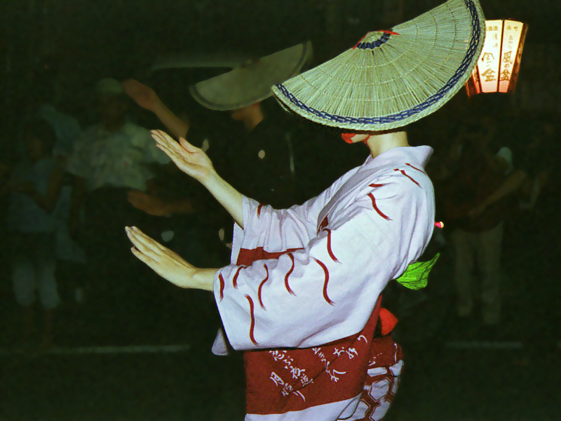 A picture of the autumn festival, called "Owara Kaze-no-Bon" in Japan. 毎年9/1～9/3に富山県富山市八尾町で行われる祭り ”おわら 風の盆”の写真 ：町流しでの男女踊り手（西町支部） Konica Auto S2